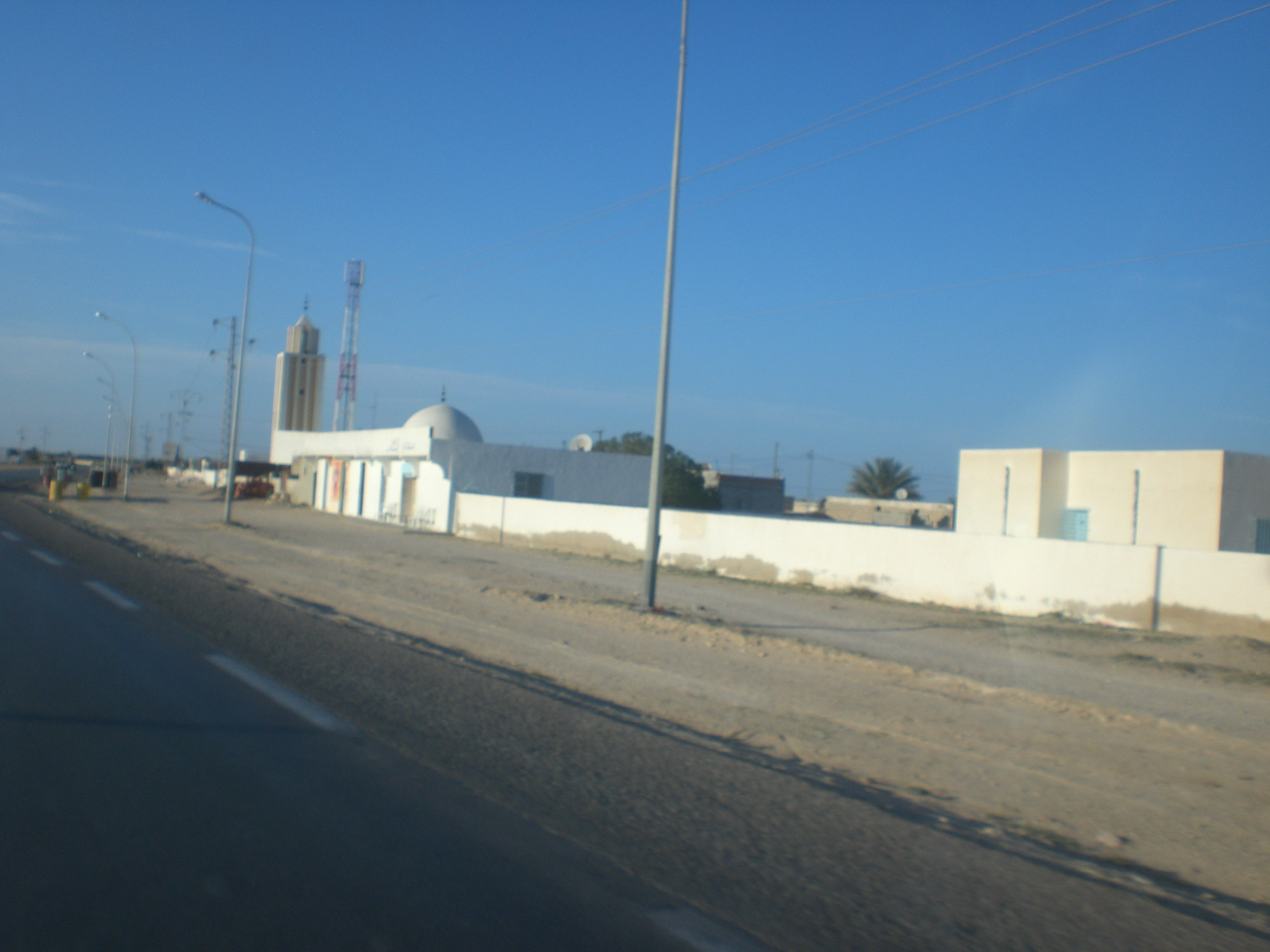 Laouinet, a Tunisian small village